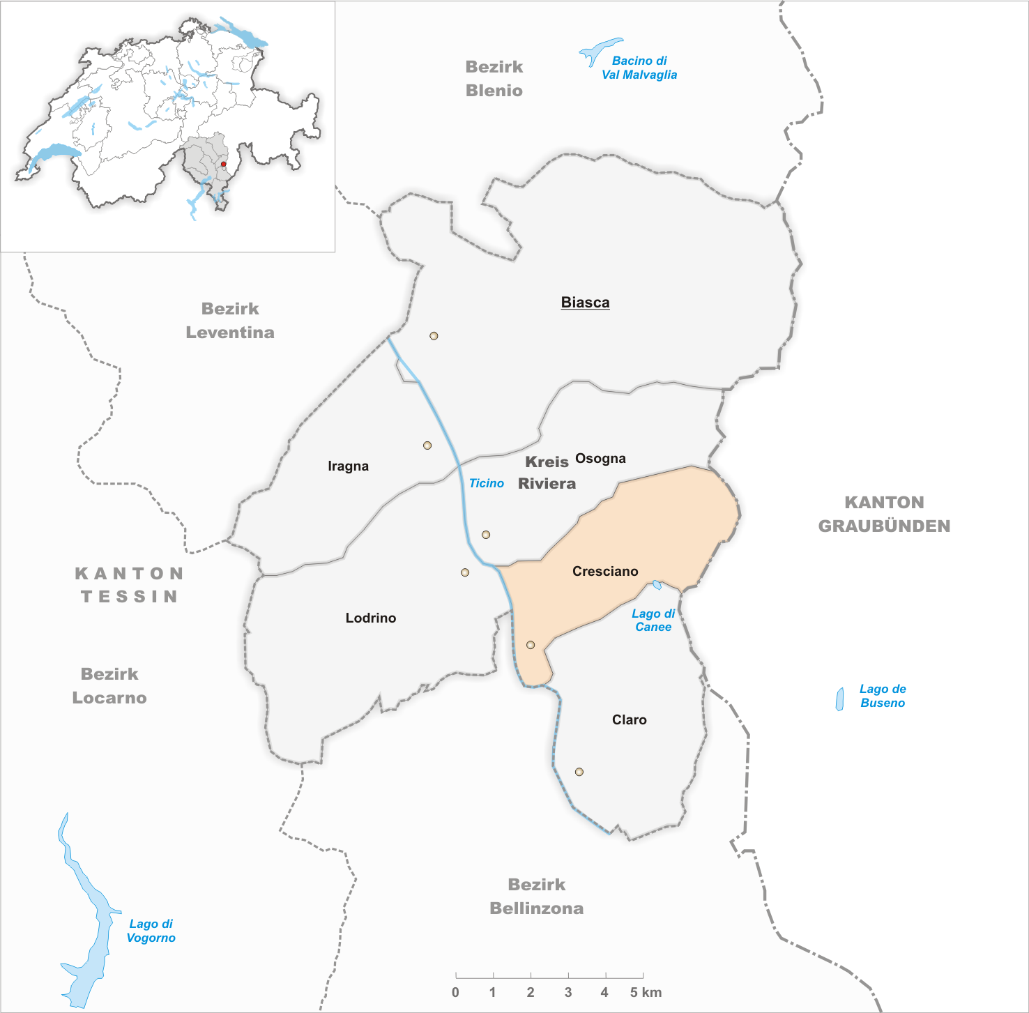 Municipality Cresciano